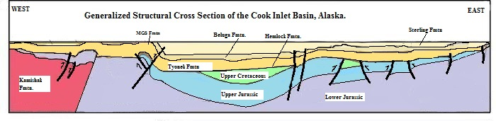 Generalized Structural Cross Section of the Cook Inlet Basin, Alaska. Modified after LePain et. al 2013